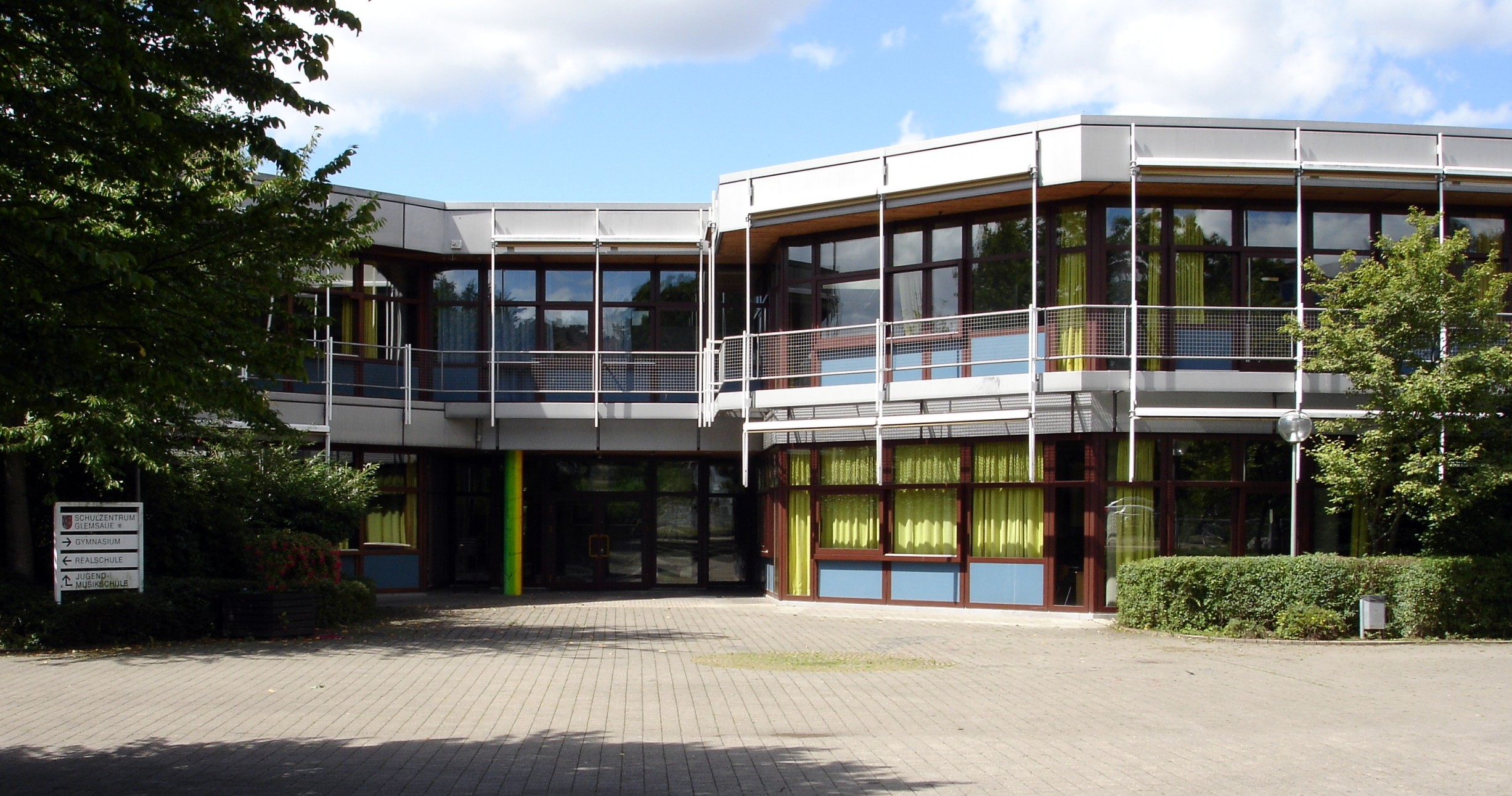 High school (grammar school) in der Glemsaue, Ditzingen, Baden-Württemberg. It is a part of a larger school complex, including also a music school for the youth.